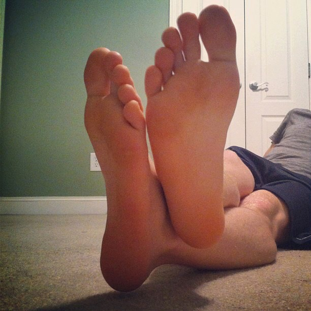 Feet of Man